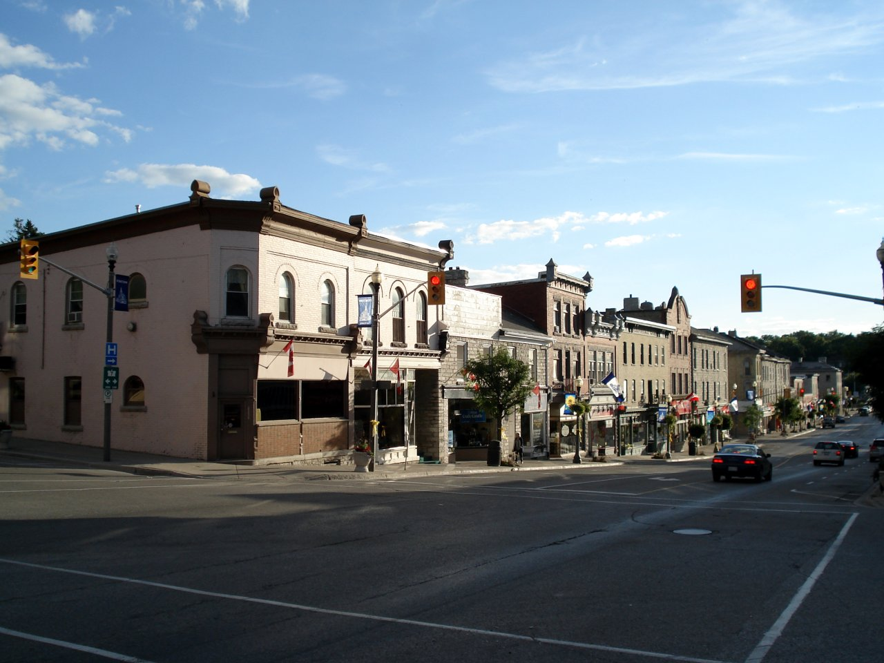 Queen St. E in St. Marys, Ontario.